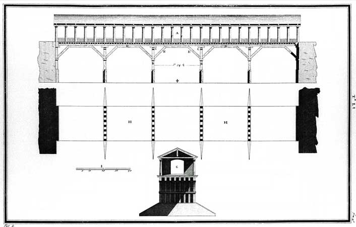 Ponte Vecchio in Bassano del Grappa by Andrea Palladio. Drawing by Ottavio Bertotti Scamozzi, 1773.